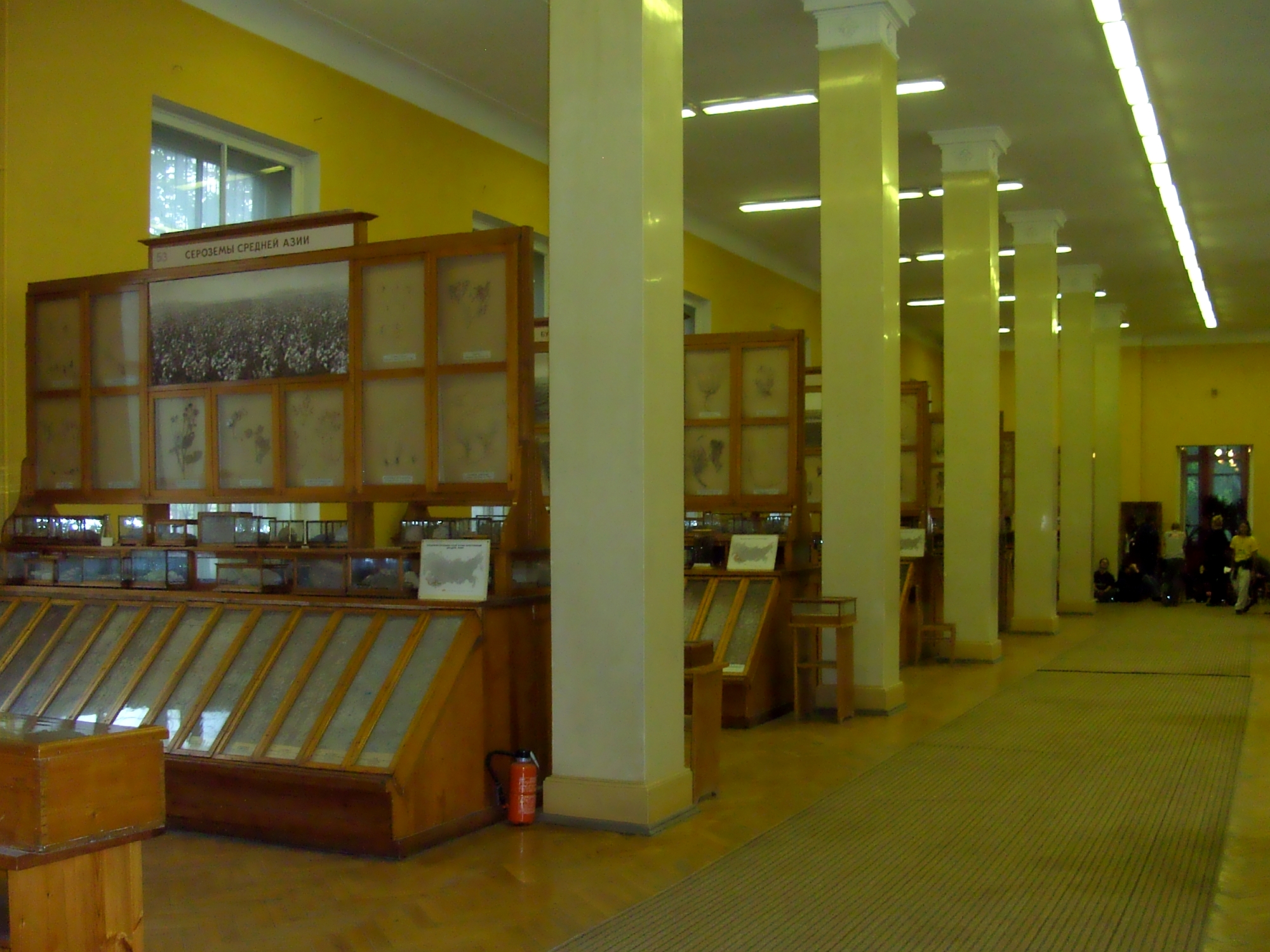 The V.R. Williams’ Soil and Agronomy Museum at the Russian State Agricultural University.